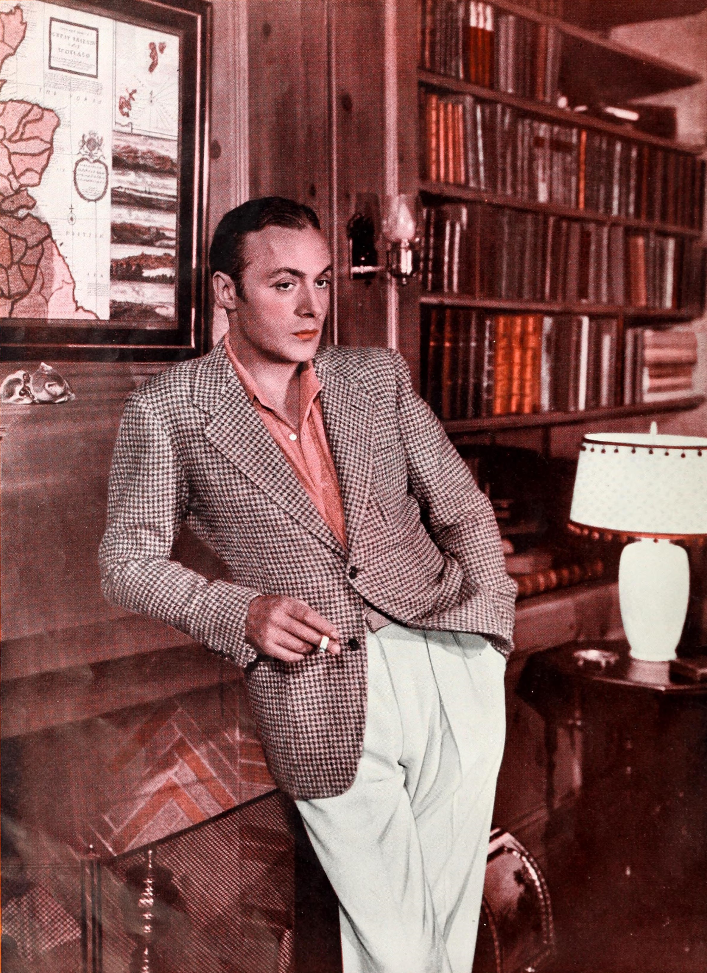 Color portrait of Charles Boyer